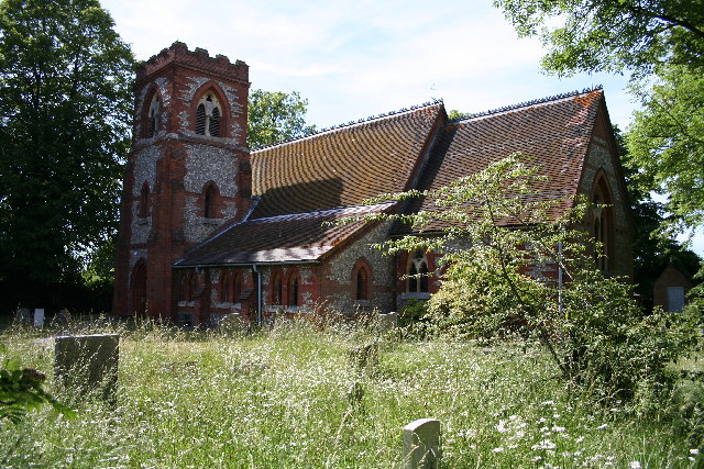 Parish church of St Mary the Virgin, Stoke Mandeville, Buckinghamshire, seen from the southeast